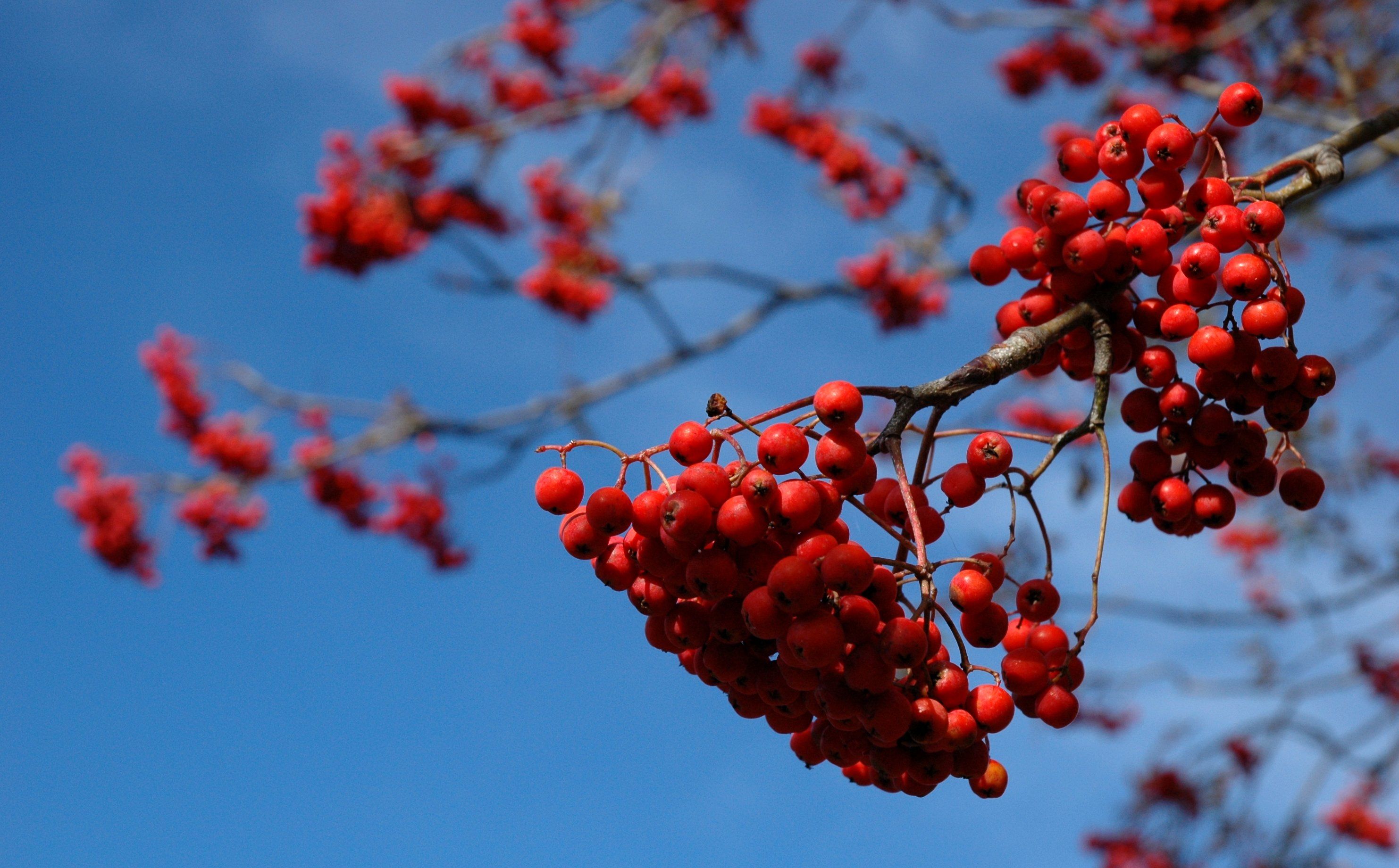 Red Rowan berries. Jardin Botanique, Montreal.